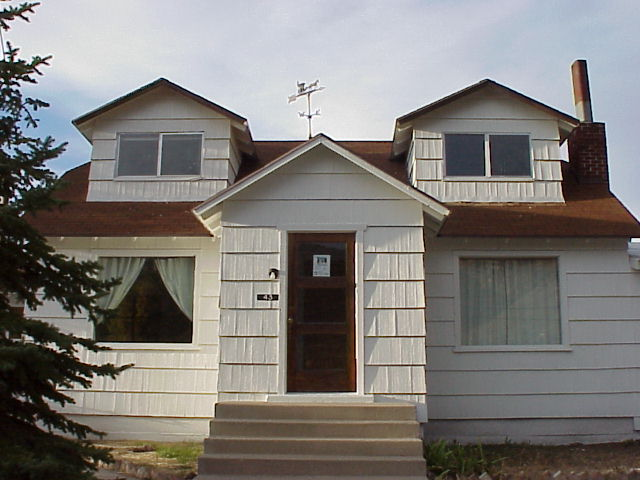 I took this photo of my old house in Eureka. This is typical of most of the houses in the town.